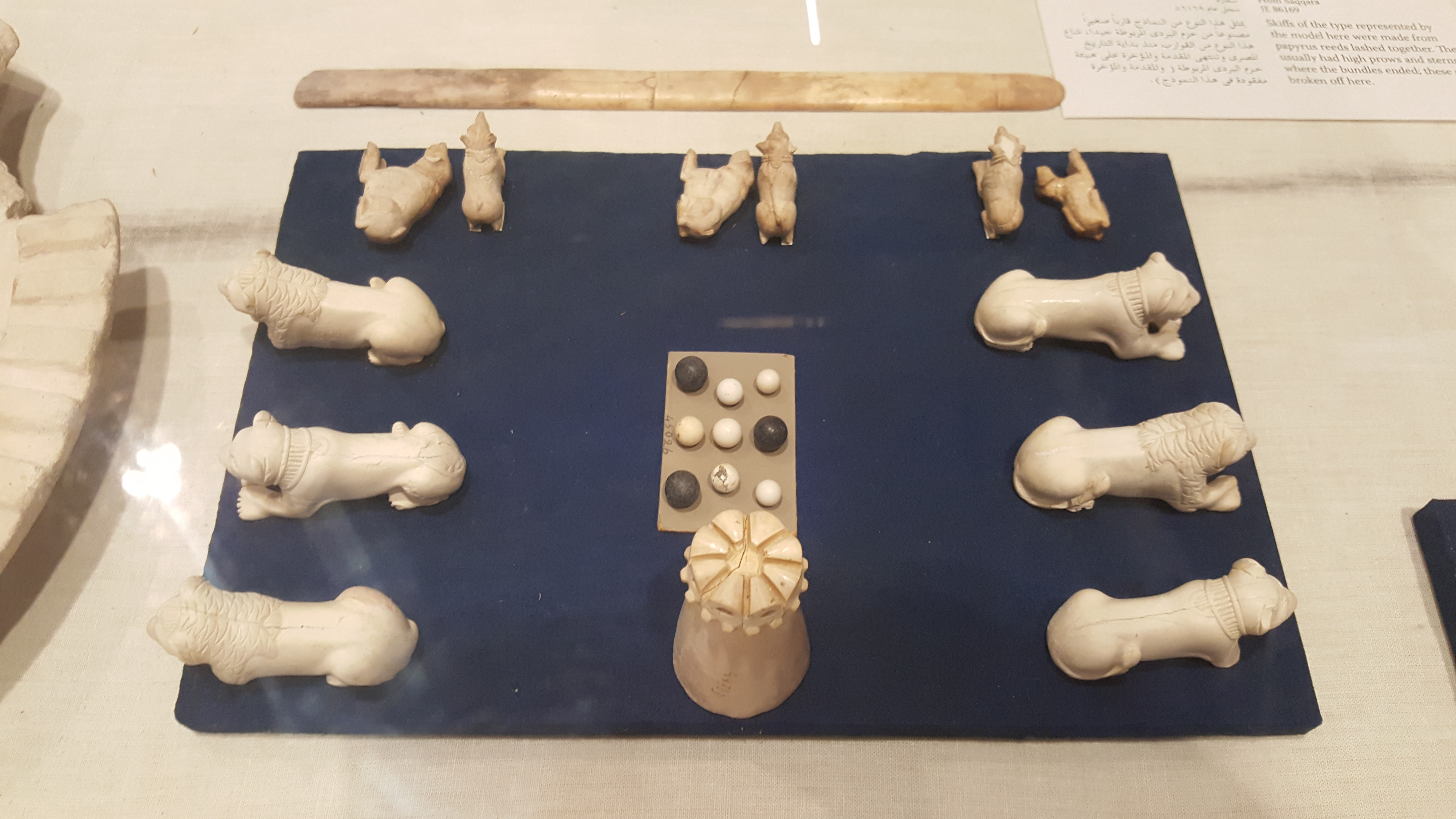 Ivory pawns. Early dynastic. Egyptian Museum (Cairo), main floor, room 43, lions JE 88199, JE 44918, dogs JE 38197 and pawn JE 44323 from Abusir el-Meleq, balls JE 45026 from Abu Rawash.